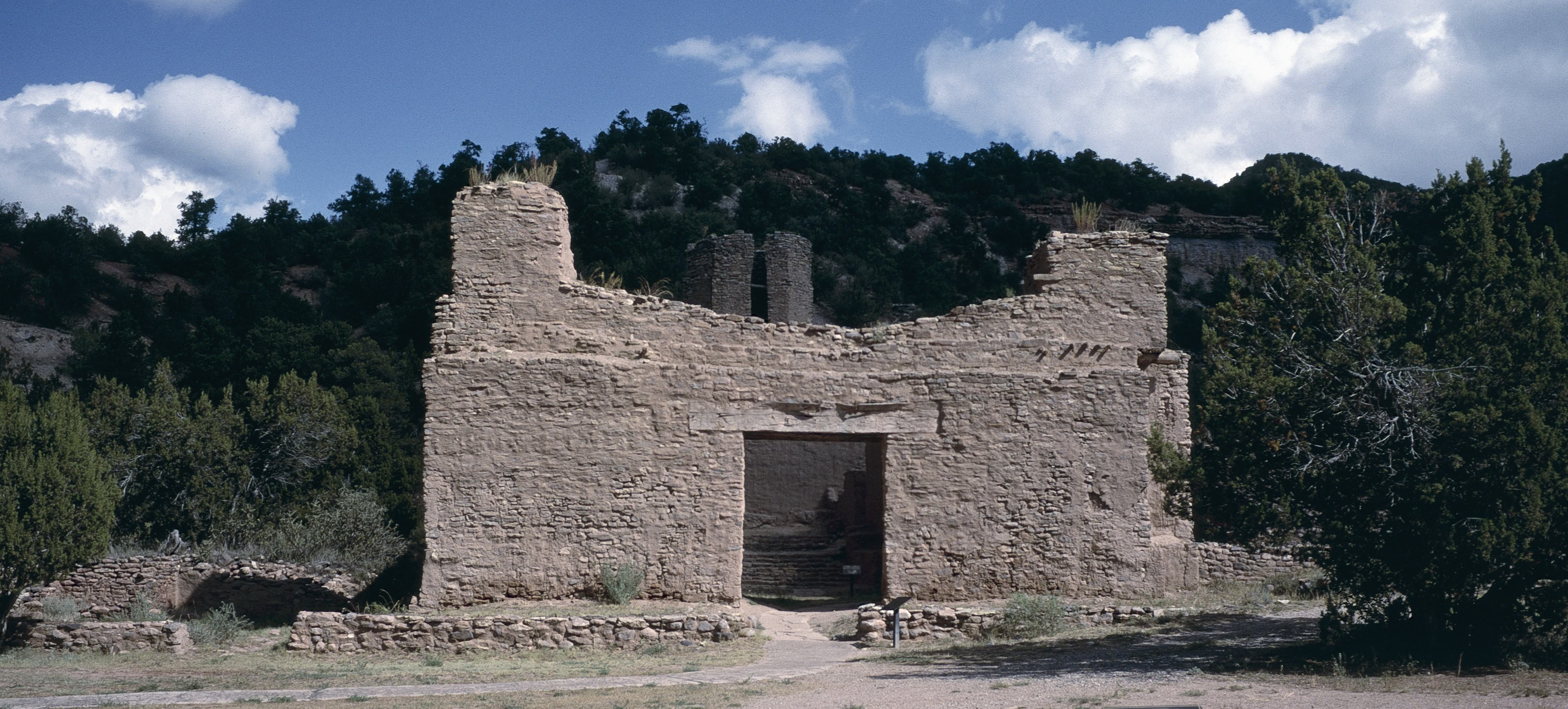 Jemez State Monument, New Mexico: church